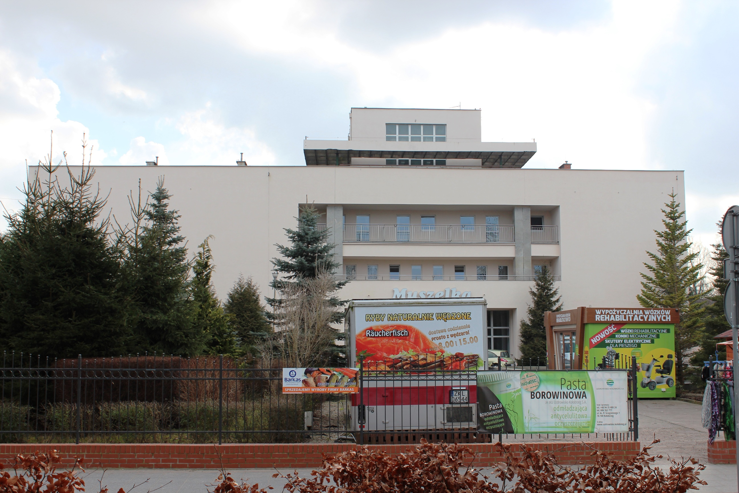 Muszelka Sanatorium in Kołobrzeg